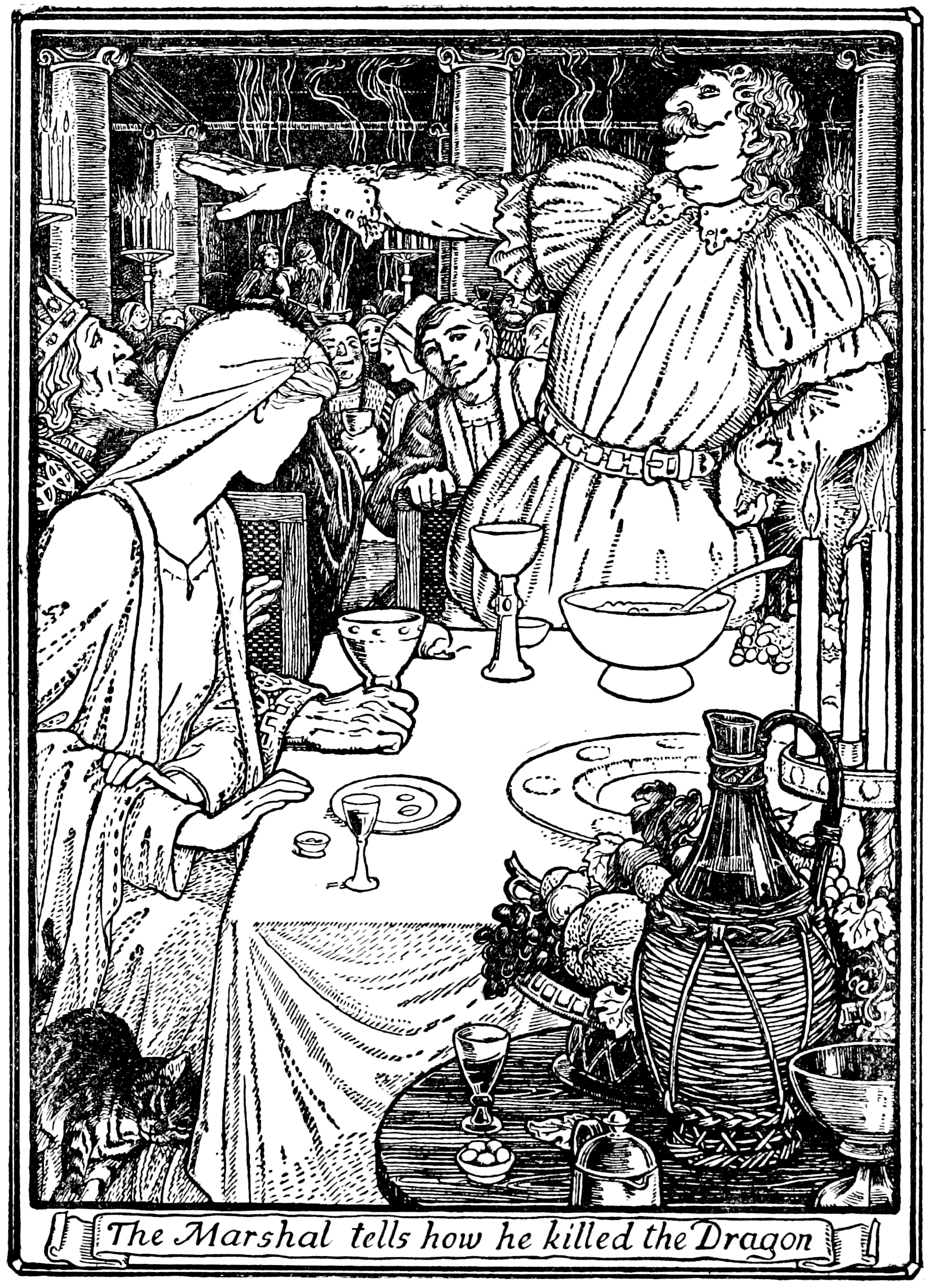 Illustration from a book of fairy tales from Europe, translated into english. The caption says, "The Marshall tells how he killed the Dragon"